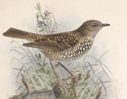 ‘Ōma’o (Myadestes obscurus) from Avifauna of Laysan By Lionel Walter Rothschild, 2nd Baron Rothschild (1868–1937) By John Gerrard Keulemans (1842-1912) (Dutch bird illustrator), which was issued from 1893-1900.